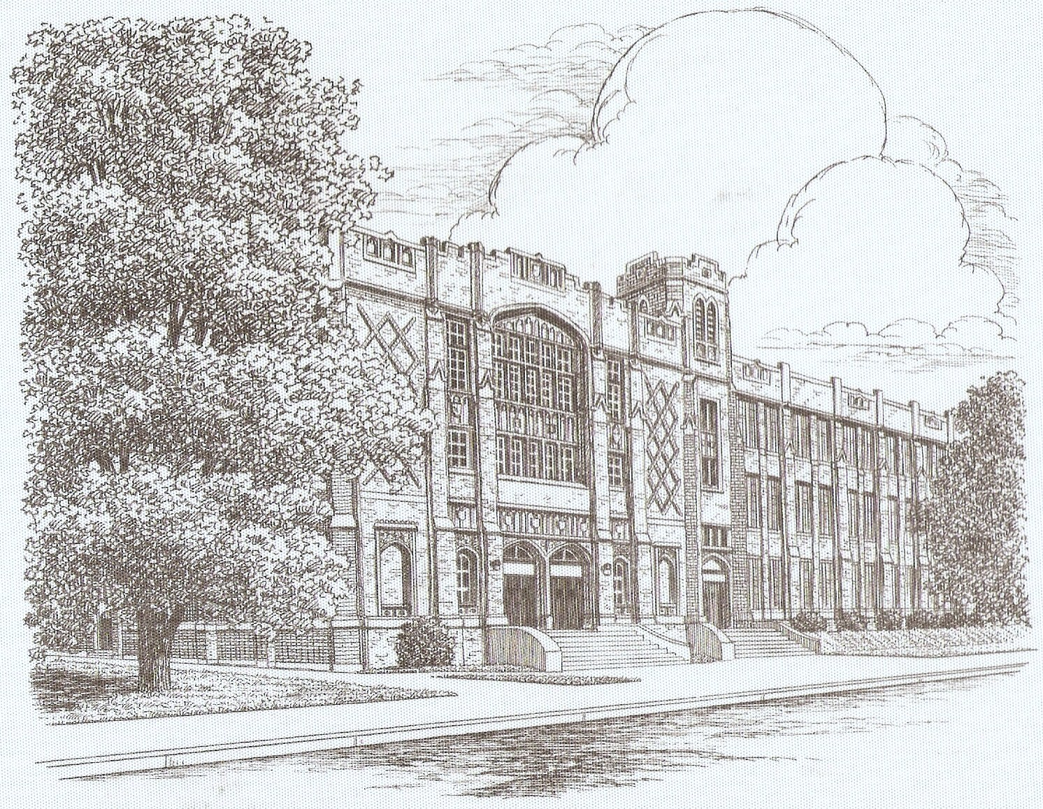 Edwin G. Foreman High School